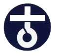 Takaishi Osaka chapter